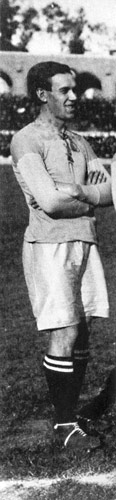 Swedish footballer Konrad Törnqvist 1913, lineup before International against Denmark 5 of october 1913